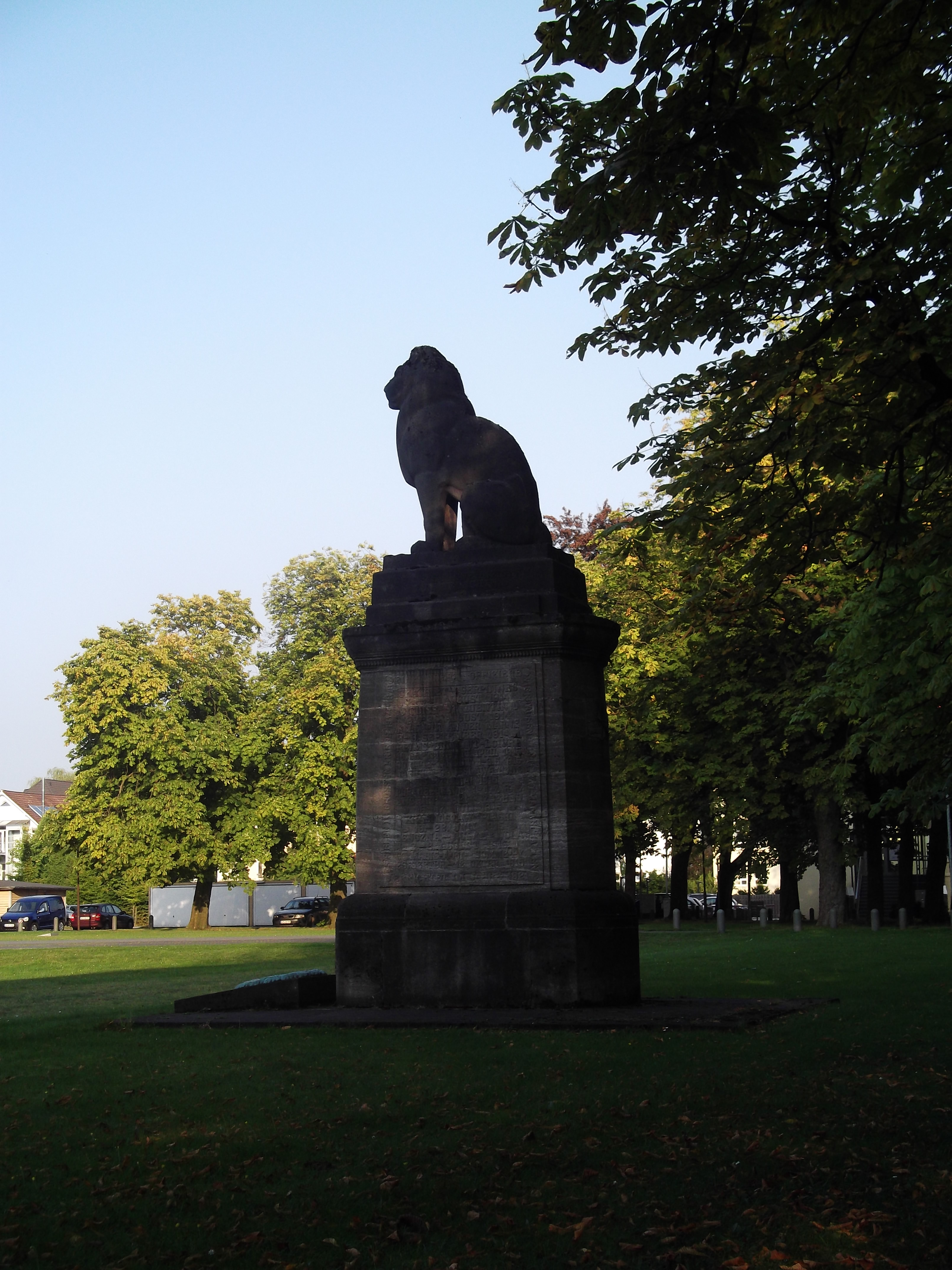 Monument of the Oldenburg regiment of infantery no. 91. Construction by Hugo Lederer 1921. The regiment was founded in 1813 and dissolved in 1919 as a result of the First World War. Position from 1921 until 1960 Oldenburg (Oldb), Schloßplatz, than until now Theodor-Tantzen-Platz.